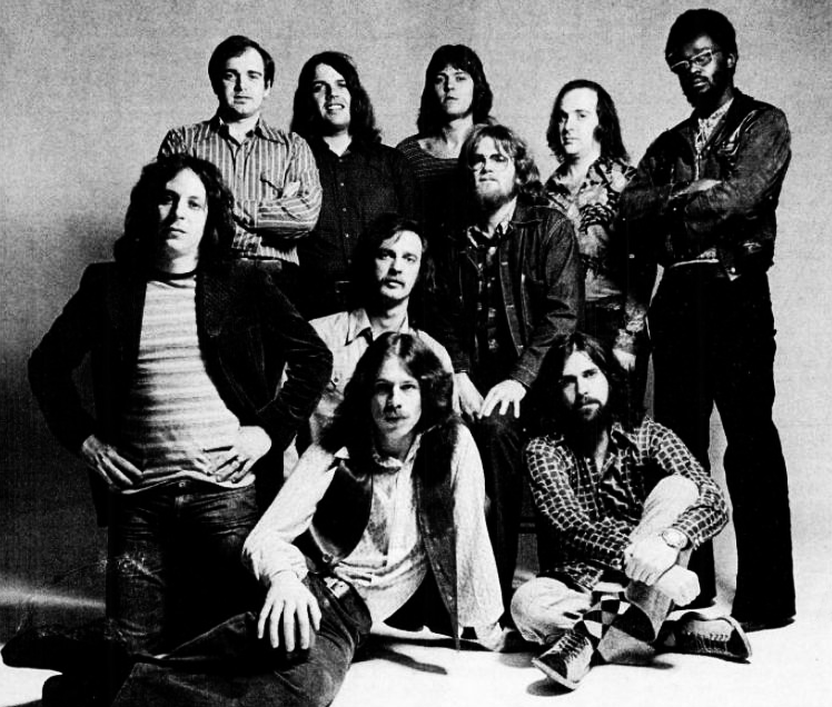 Trade ad for Blood, Sweat & Tears' album New Blood. To better adapt it to his respective Wikipedia article, the ad was cropped and cleaned in a graphics editing program. The original can be viewed at the source below.